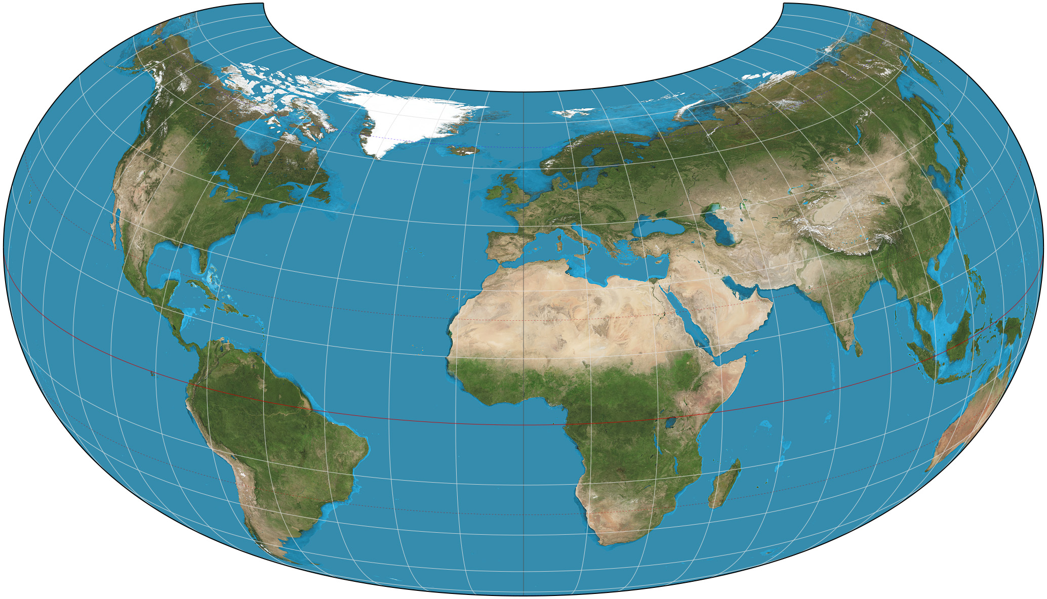 The world on Raisz’s armadillo projection. 15° graticule. Imagery is a derivative of NASA’s Blue Marble summer month composite with oceans lightened to enhance legibility and contrast. Image created with the Geocart map projection software.